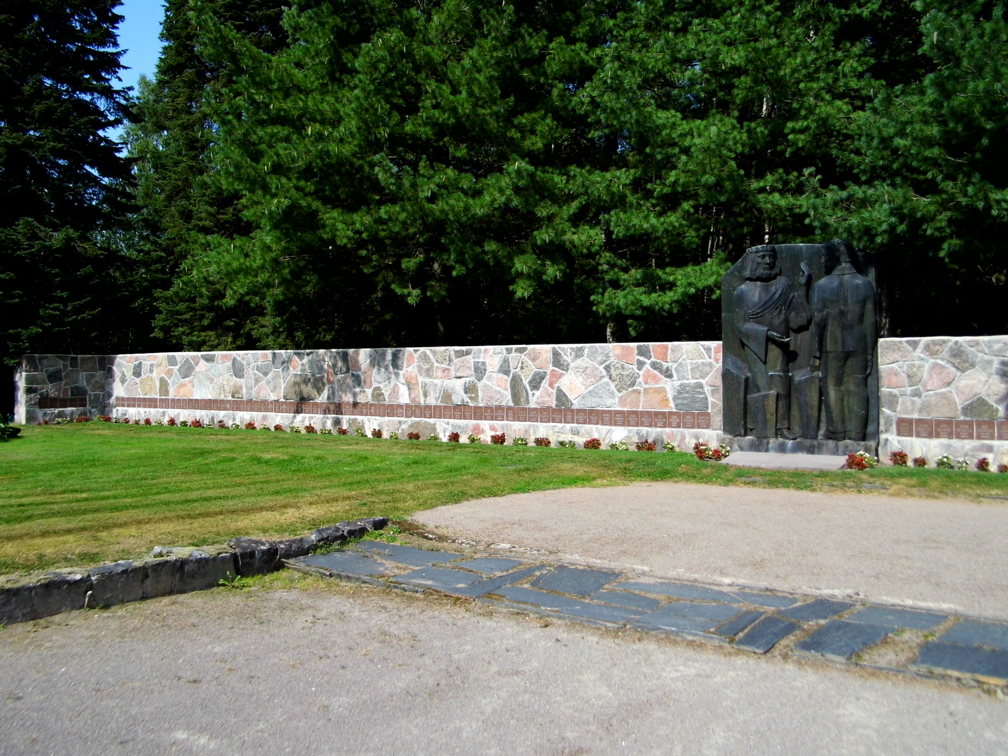 Military cemetary at church in Simpele, Finland